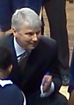 Source: file:Jim Les in the huddle with UC Davis.jpg